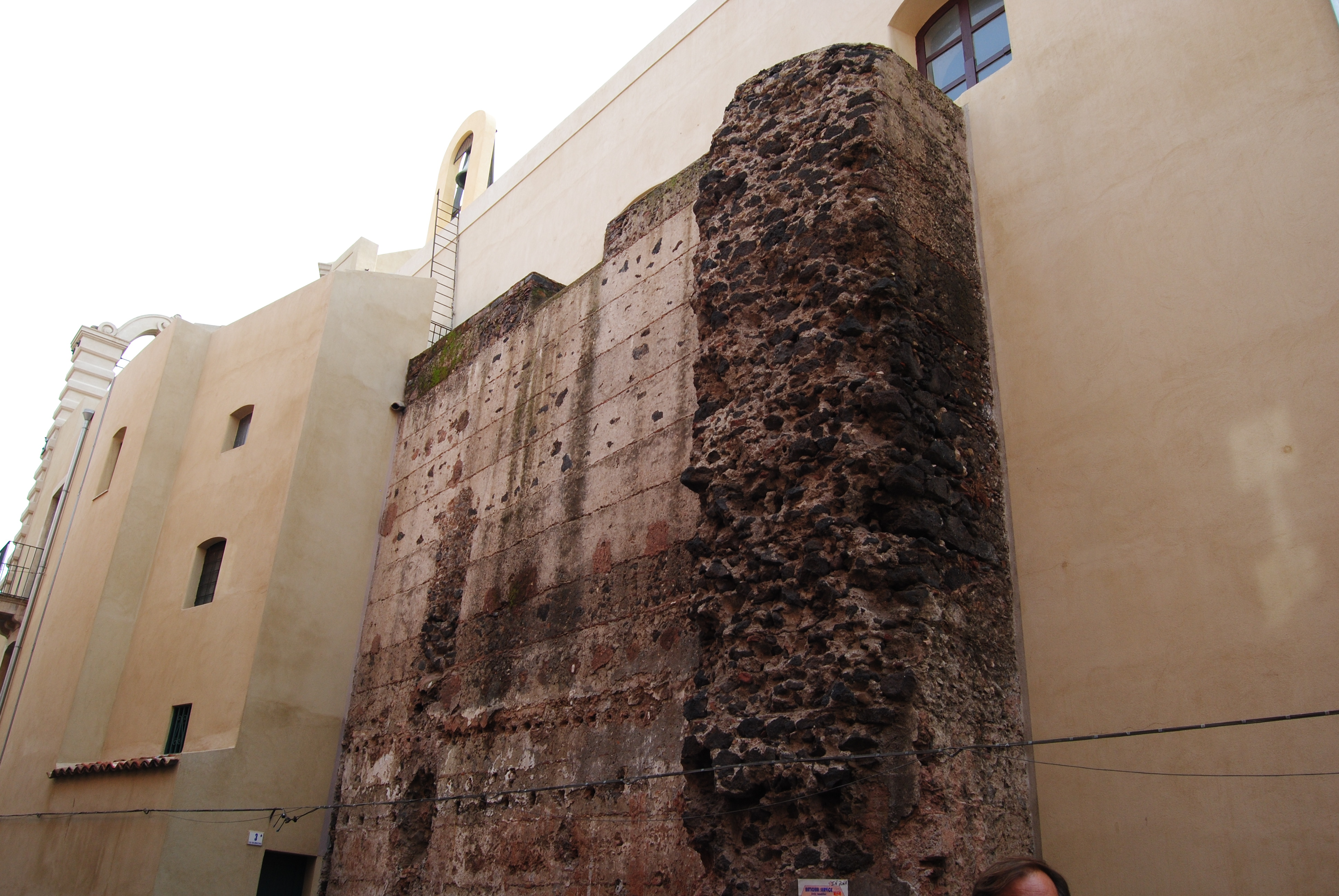 Ruins of Porta della Decima (decima Gate), in Catania. Built before the 1230, destroied during the Kingdom of Italy.